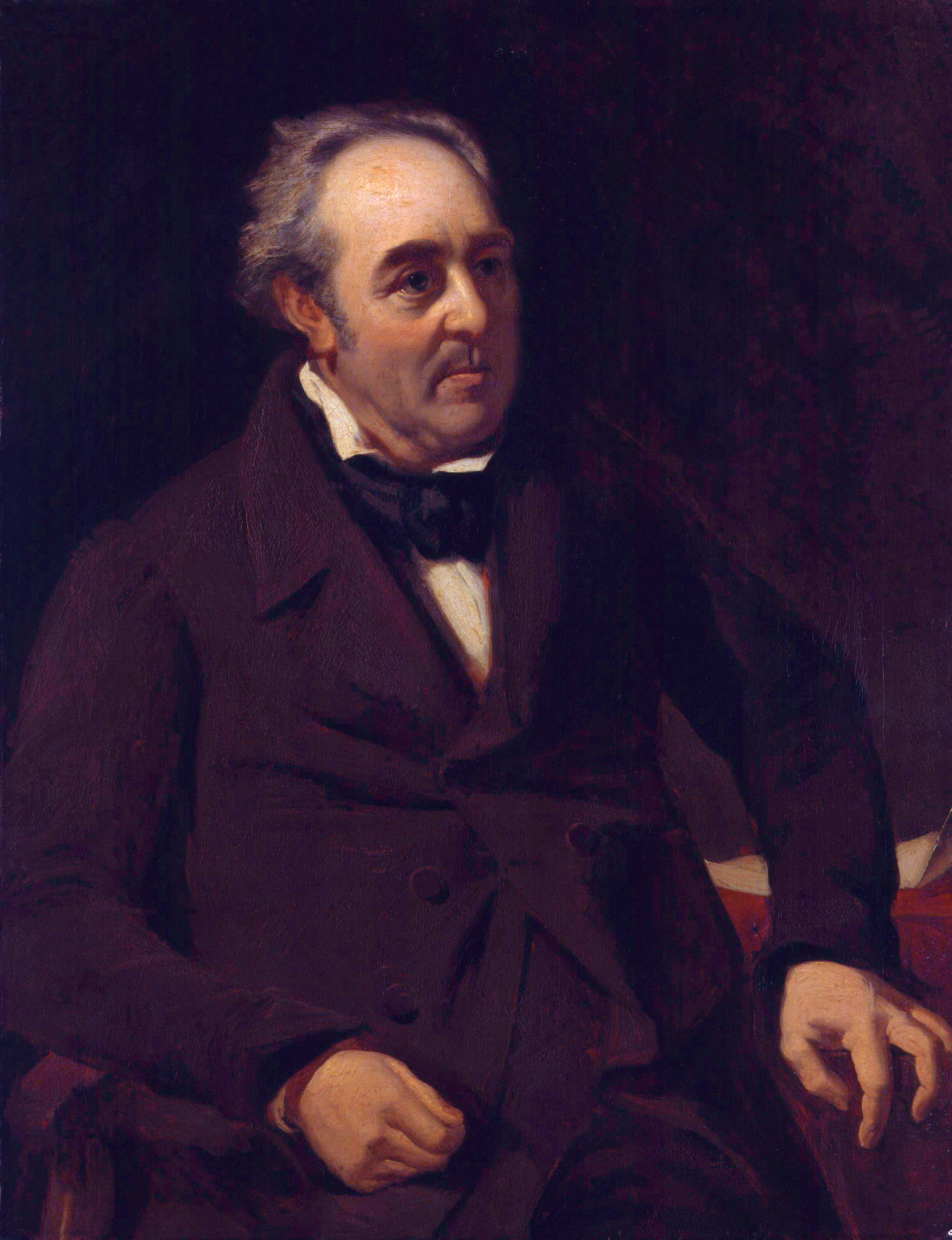 Walter Savage Landor, by William Fisher (died 1895). All images in this batch have been confirmed as author died before 1939 according to the official death date listed by the NPG.